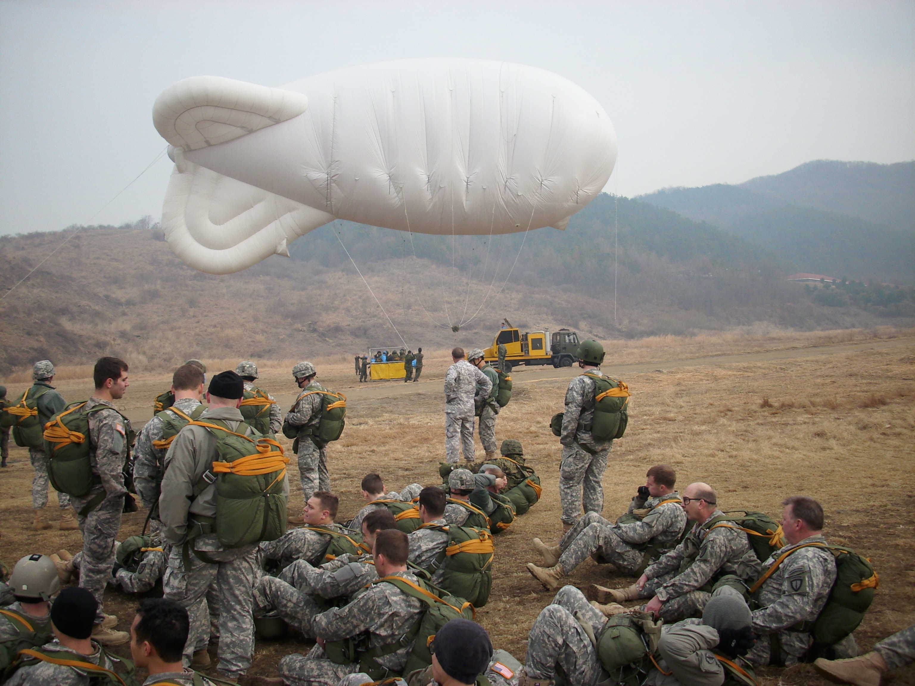 Special Operations Command Korea (SOCKOR) conducted airborne jumps with a helium blimp and gondola at the ROK Drop Zone, 5 March 2009. The jump was an opportunity for SOCKOR augmentees that are assigned or attached during Exercise Key Resolve 09 to jump with active SOCKOR members.